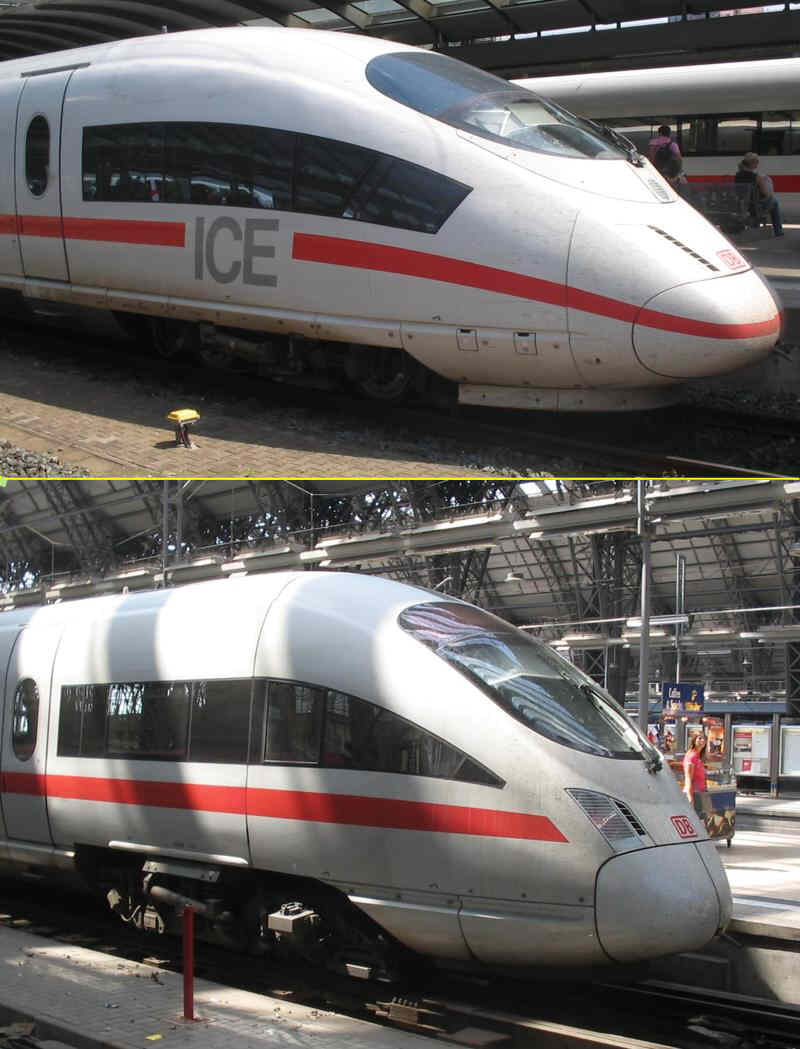 End cars of an ICE-3 (above) and an ICE-T (below) - showing similarities and differences. Pictures taken at Frankfurt main train station